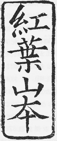 Seal of Momijiyama bunko